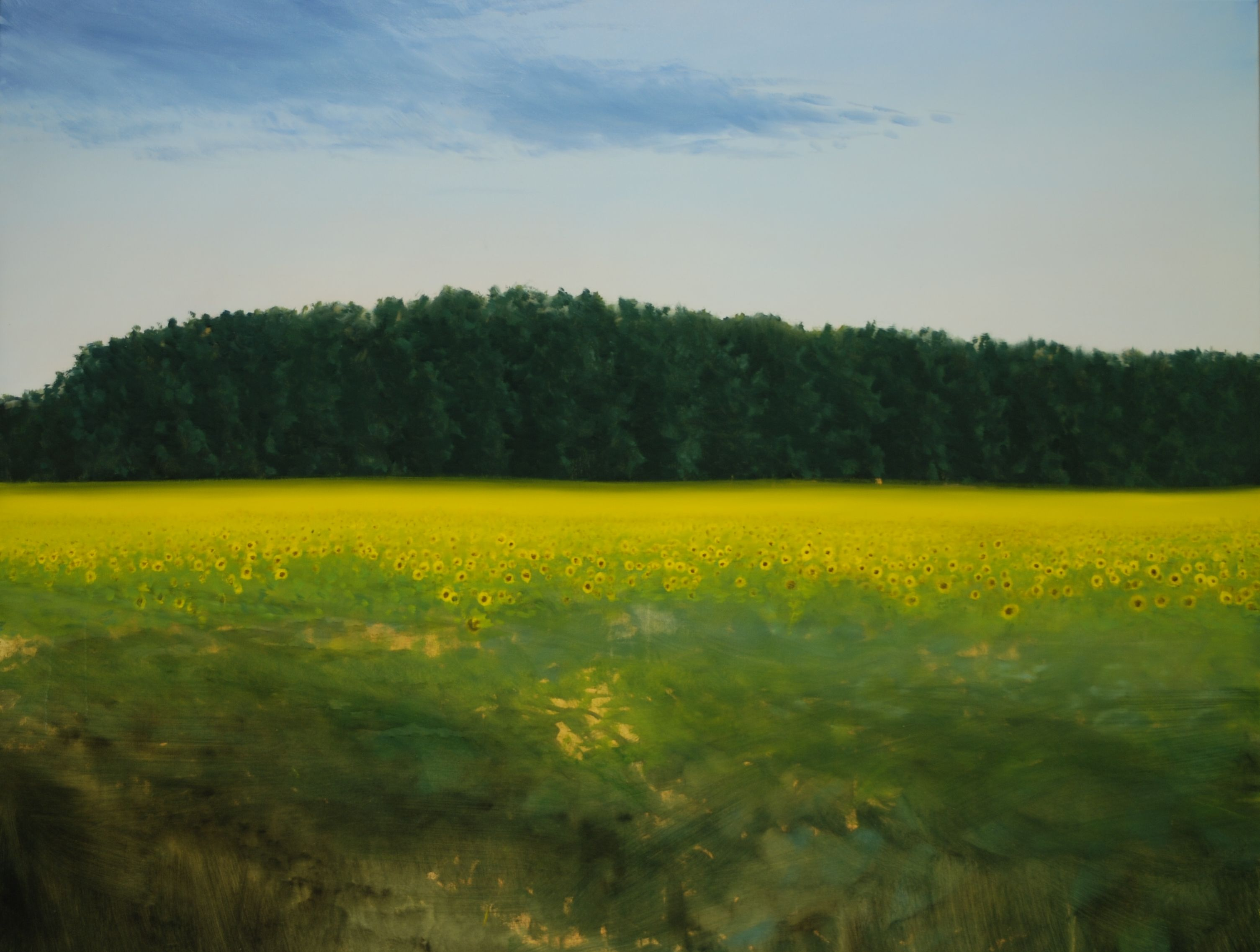 Napraforgós, 150x190 cm, olaj, vászon, 2006